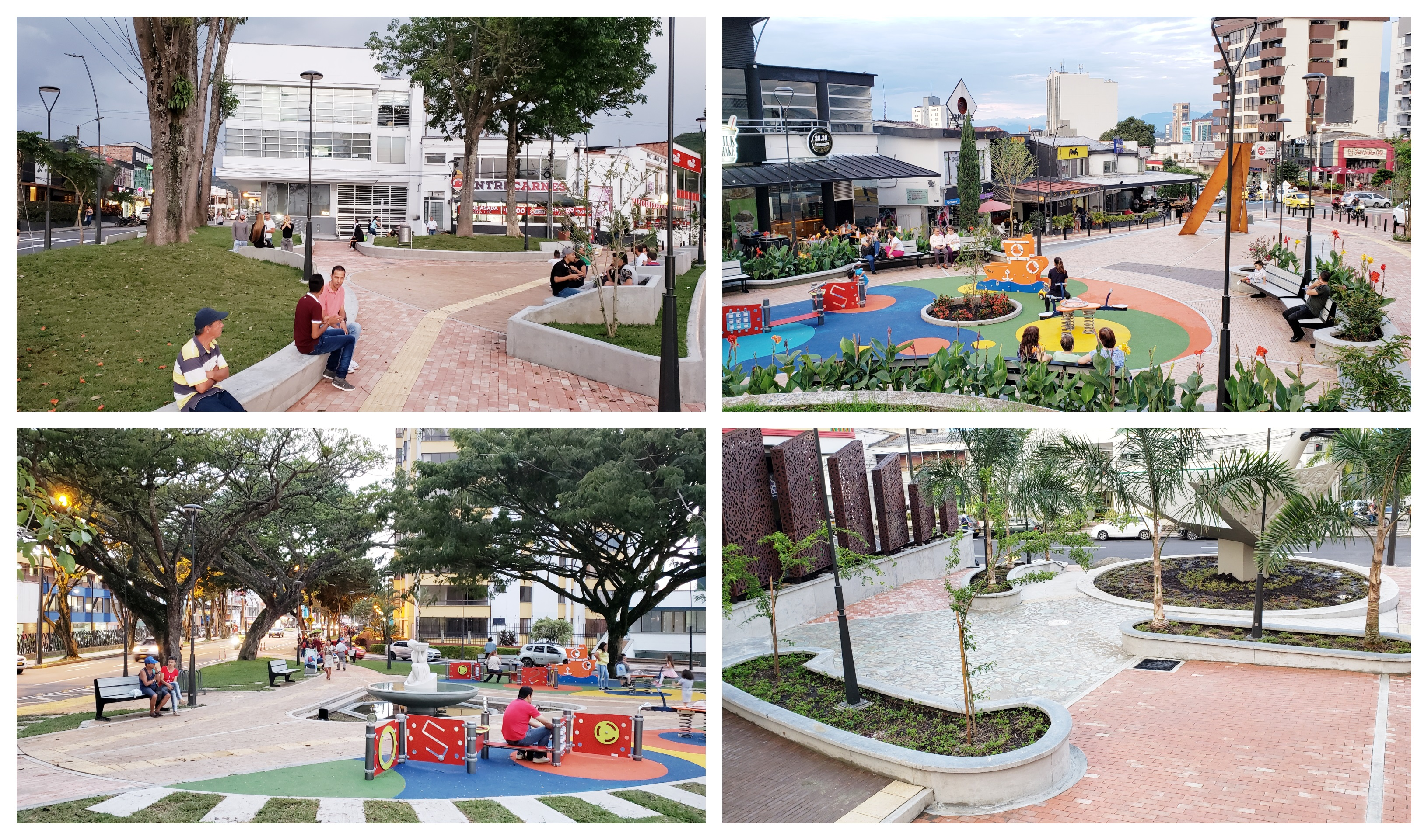 Nuevos parques entregados en la Alcaldía de Juan Pablo Gallo